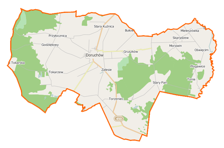 Map of Gmina Doruchów, Poland This map of Doruchów (gmina) was created from OpenStreetMap project data, collected by the community. This map may be incomplete, and may contain errors. Don't rely solely on it for navigation. Border coordinates51.454017.9740←↕→18.219551.3527